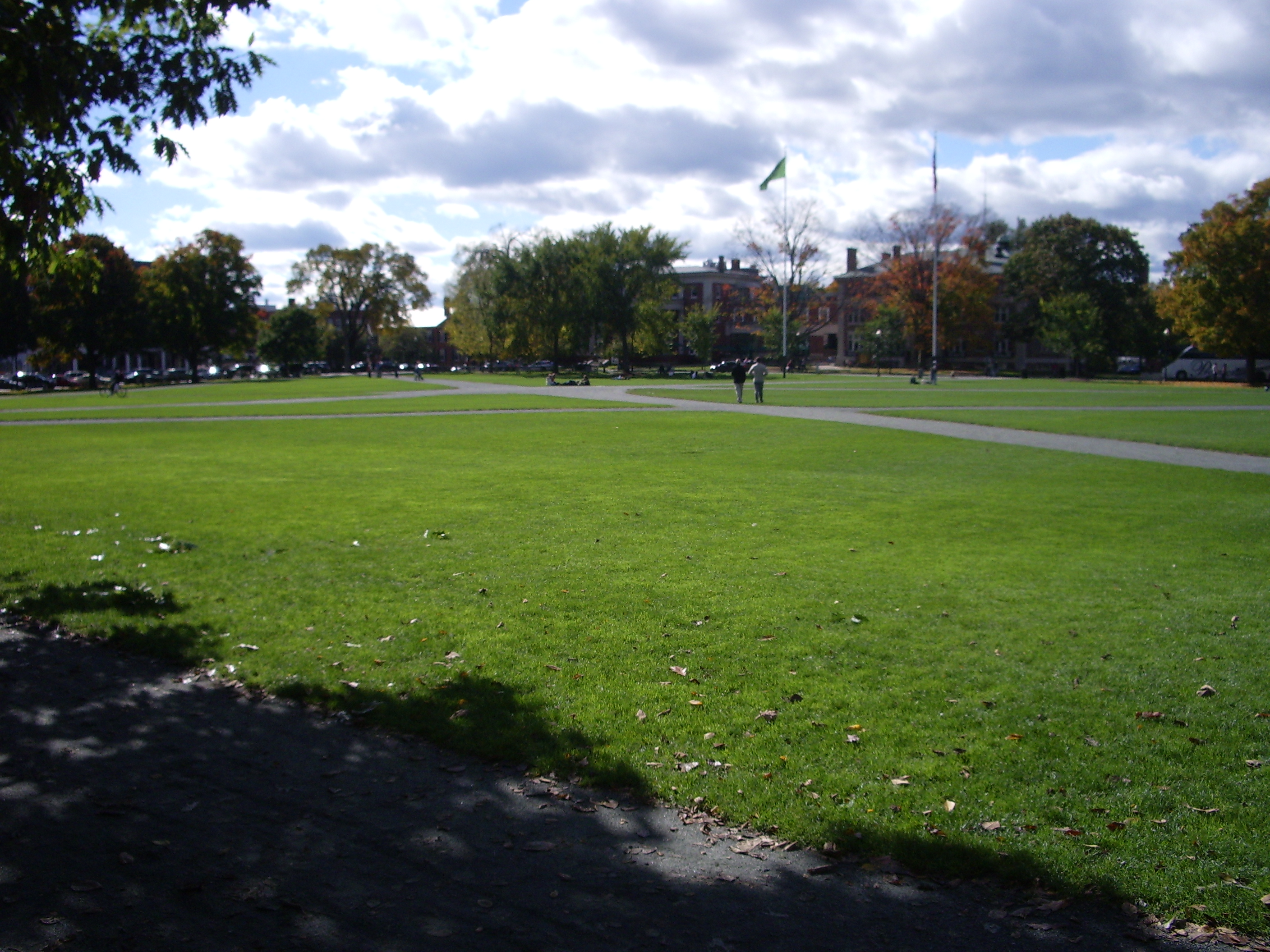 Photo of The Green at Dartmouth College in Hanover, New Hampshire